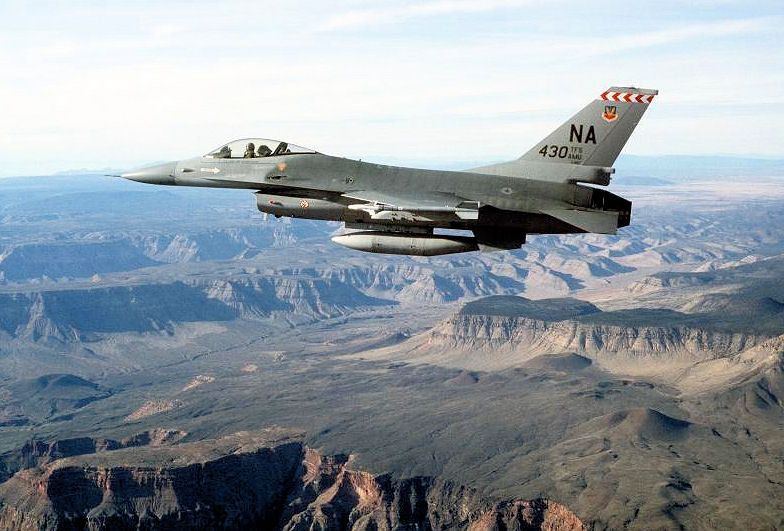 USAF F-16A #80-0492 of the 430th TFS in flight in 1986 over the Grand Canyon. The 430th TFS is part of the 474th Tactical Fighter Wing based at Nellis AFB, Nevada. [USAF photo by SSGT Wayne Evans]